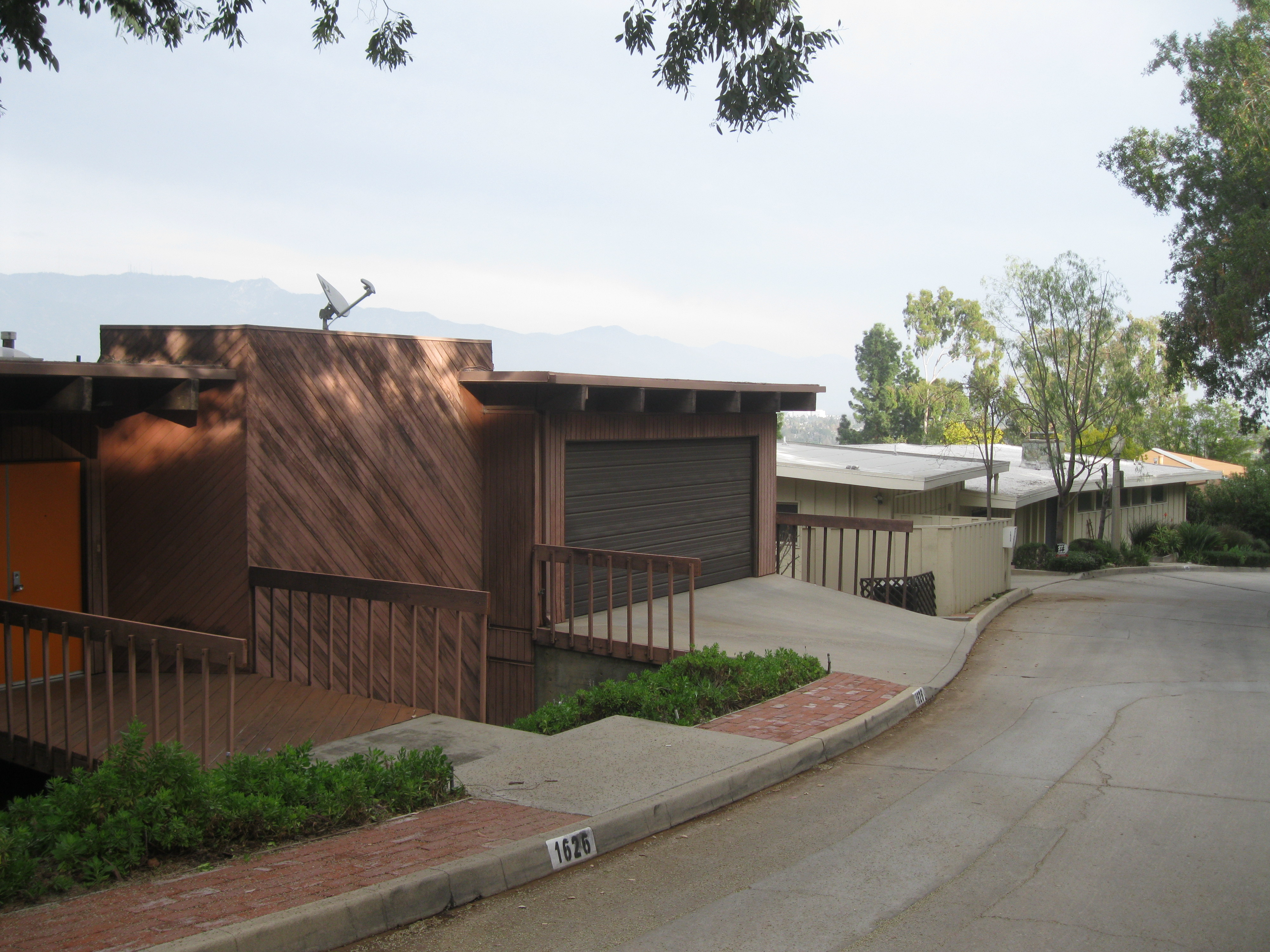 Homes near the top of Poppy Peak Drive in Pasadena, California. The homes along the drive form part of the Poppy Peak Historic District, which is listed on the National Register of Historic Places